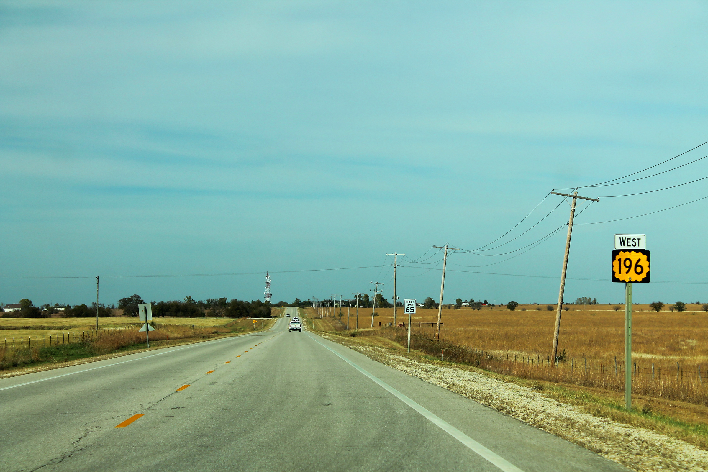 KS196wRoadSign